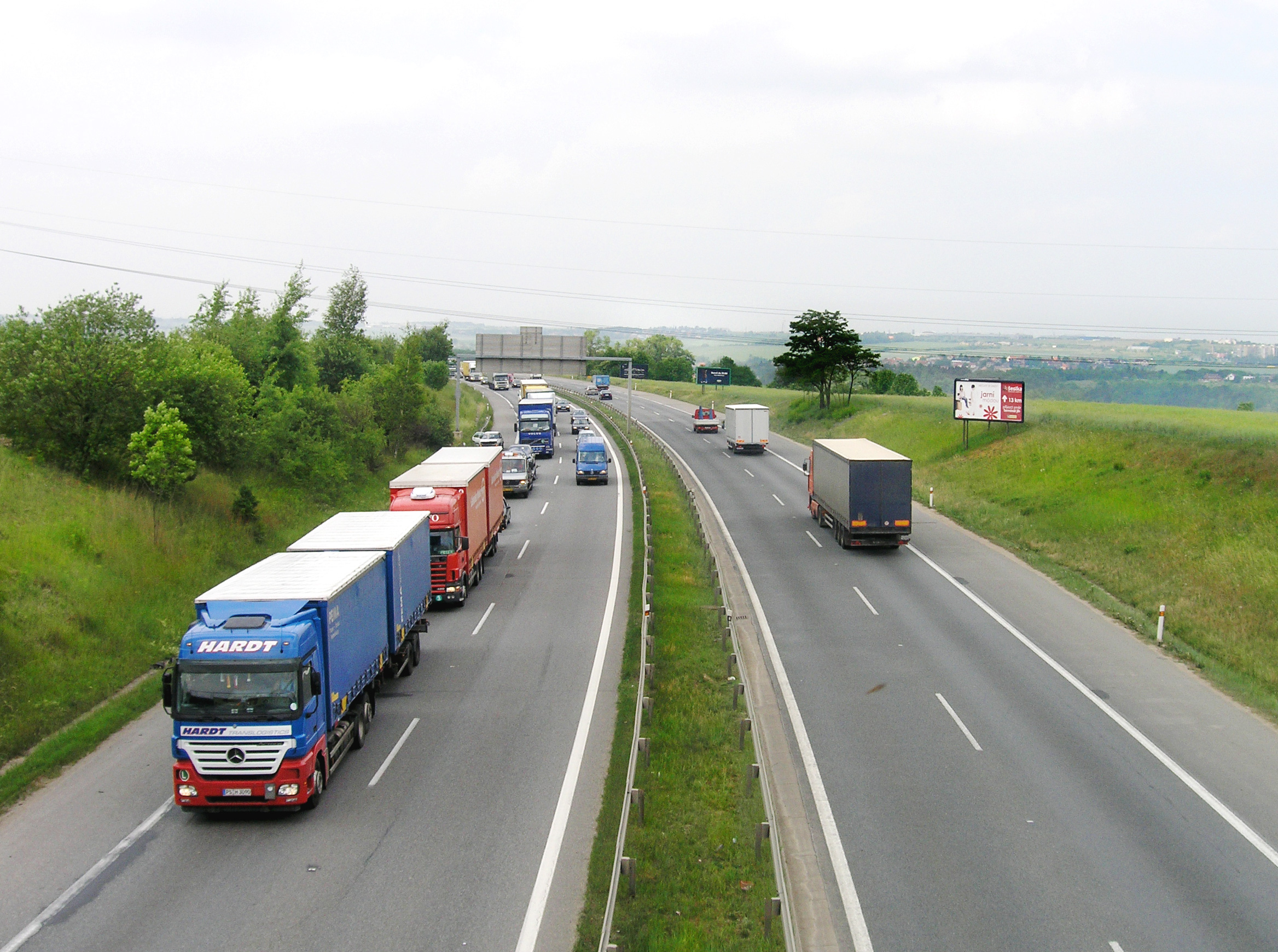 R1 Highway at Slivenec, Prague